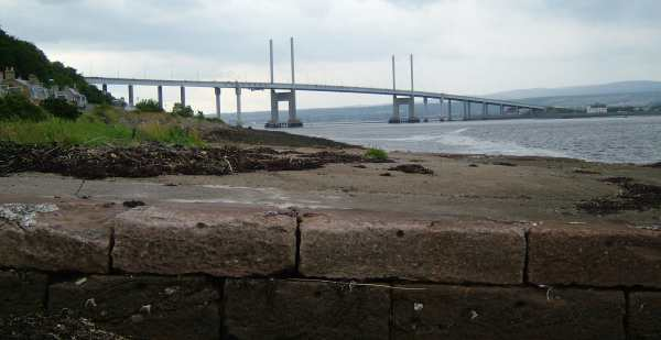 Kessock bridge, west of Inverness in Scotland